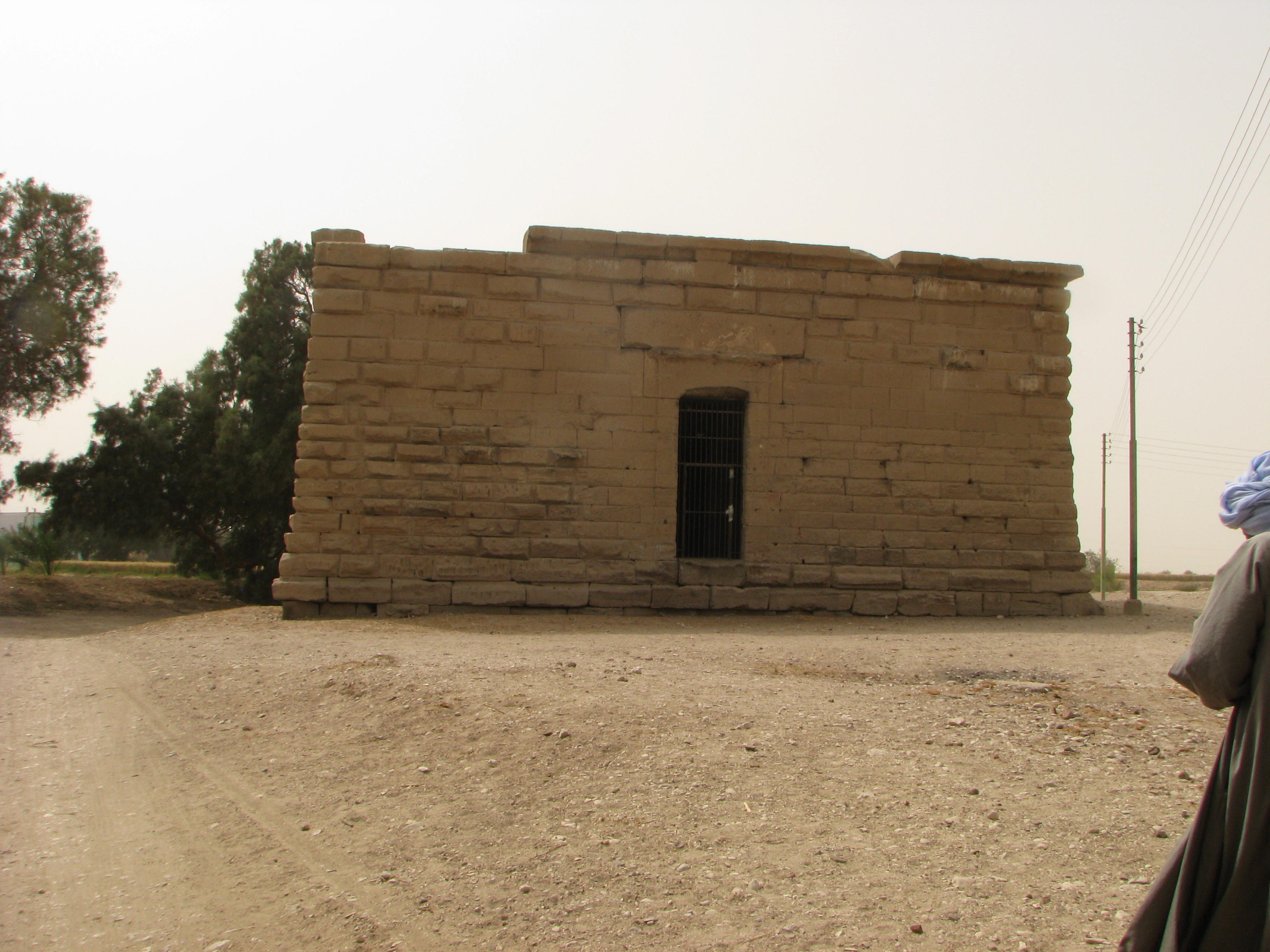 Deir el-Shelwit, main facade of the Isis temple (alternate spelling: Deir el-Shalwit, Deir Chalouit)